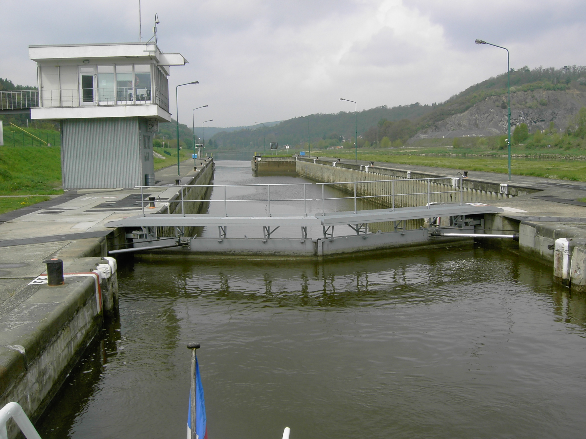 Roztoky lock at Moldau river, Czech republic. Downstream view of large lock from the filled small one.